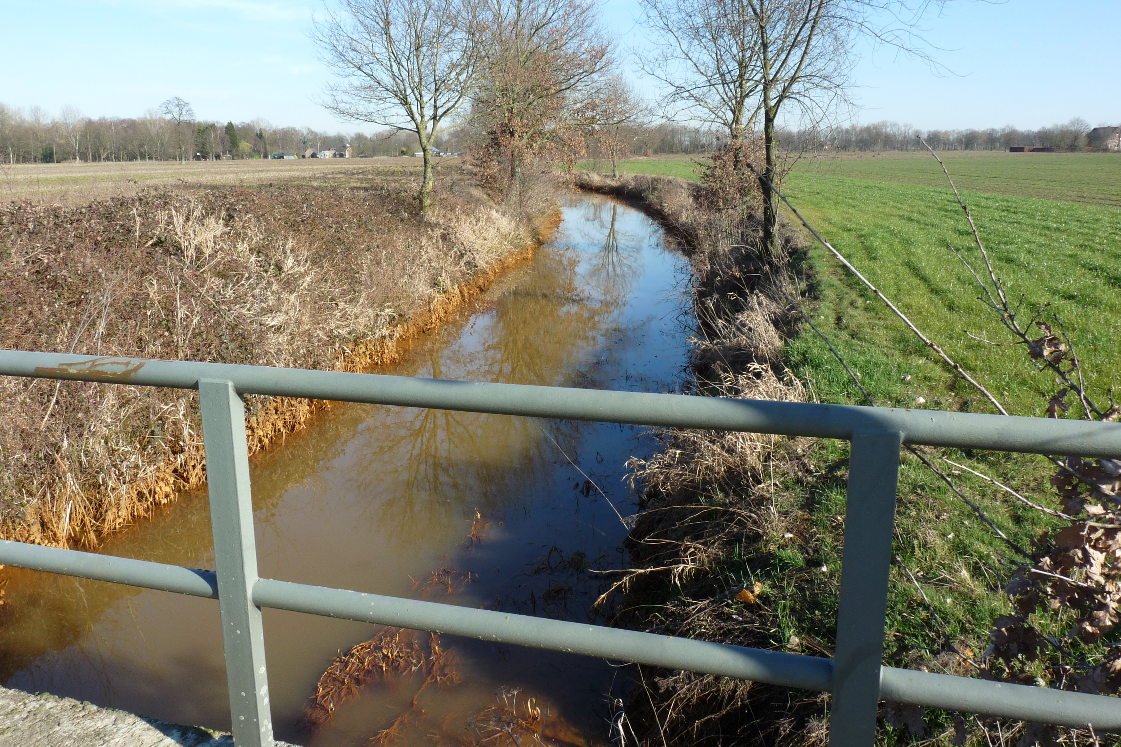 Wimp is a river in Belgium